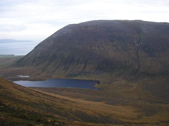 Ward Hill on the island of Hoy, Orkney Islands.